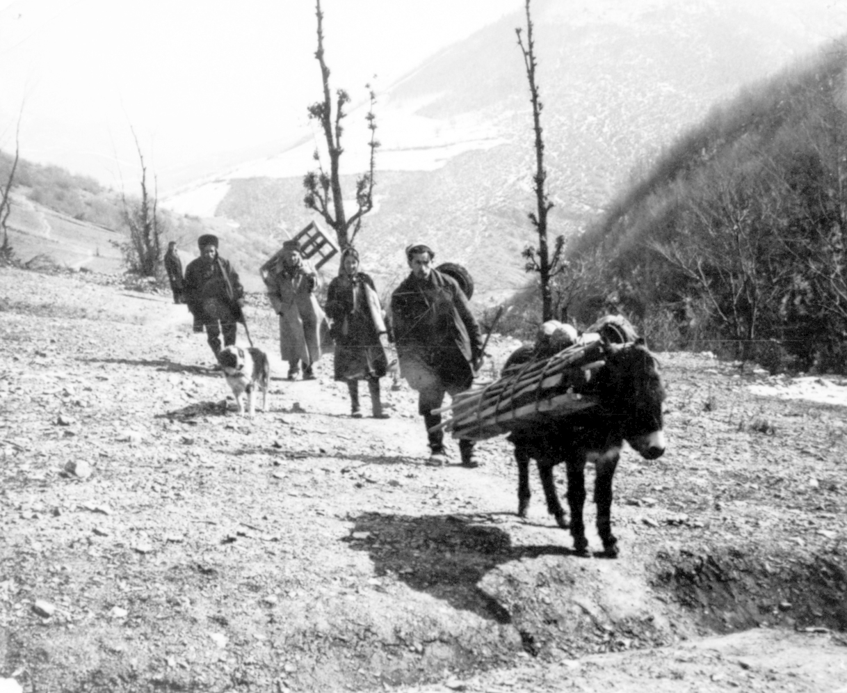 The eviction of the population of the village Zavoj